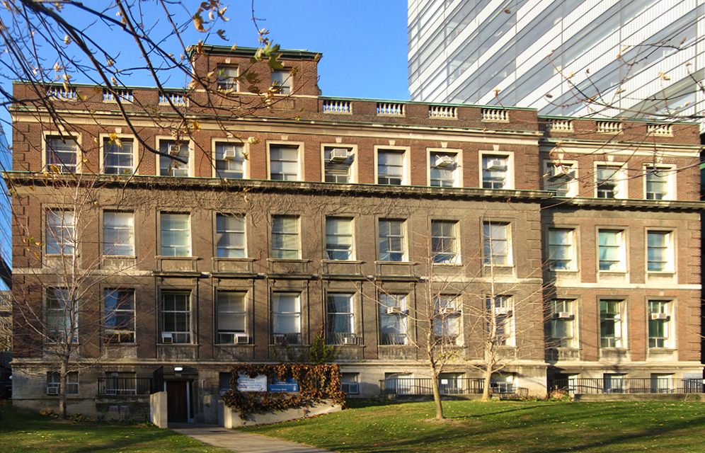 James Scott, personal photo, University of Toronto FitzGerald Building